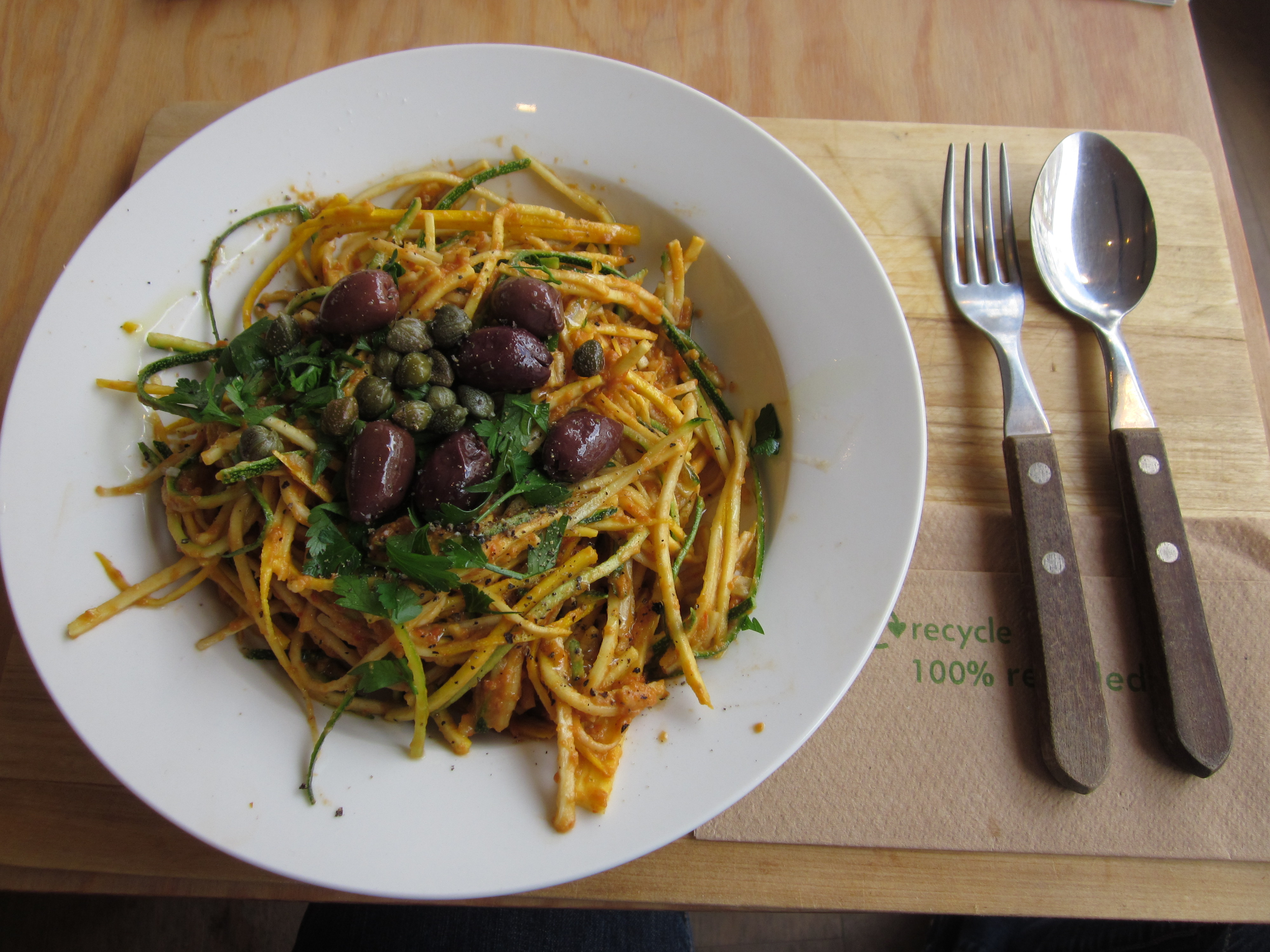 Spaghetti, made from zucchini, served in an Antwerp lunchroom following the raw foodism principle.